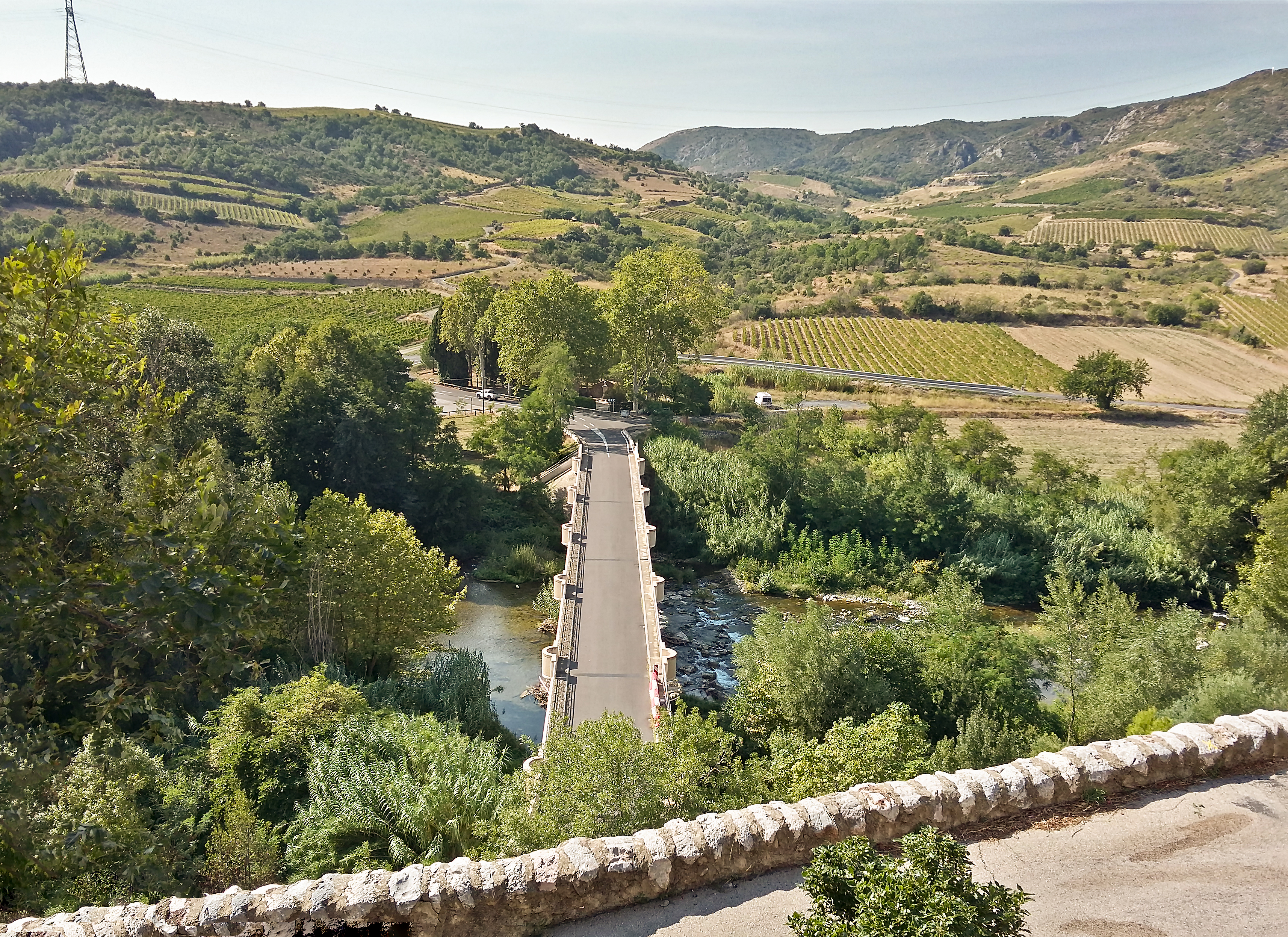 Latour-de-France, Pyrénées-Orientales, France - the bridge over the Agly from rue de l'hopital.